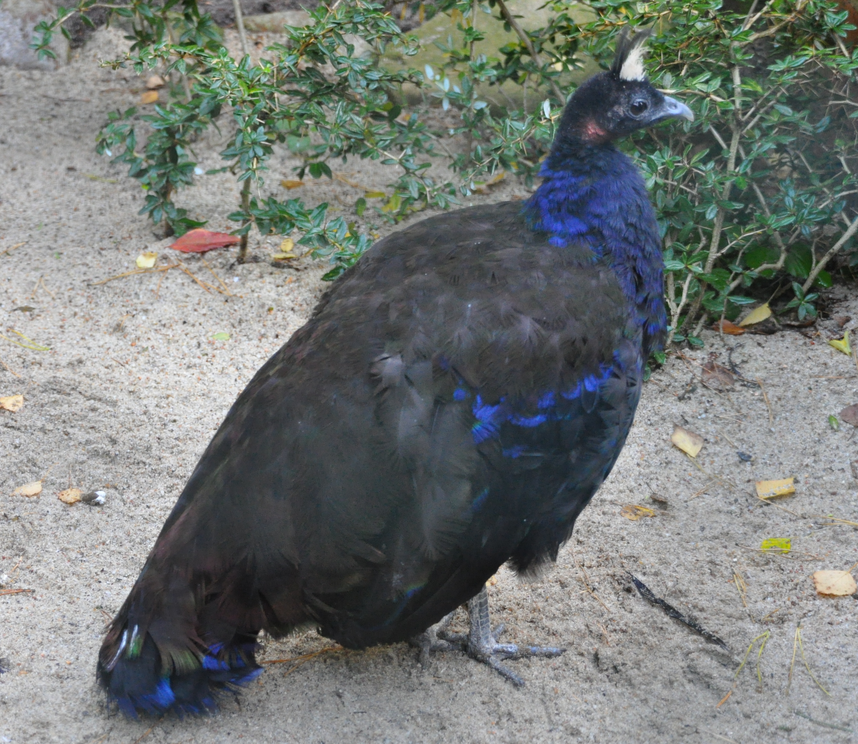 Congo Peacock(Afropavo congensis) in the Walsrode Bird Park, Germany.